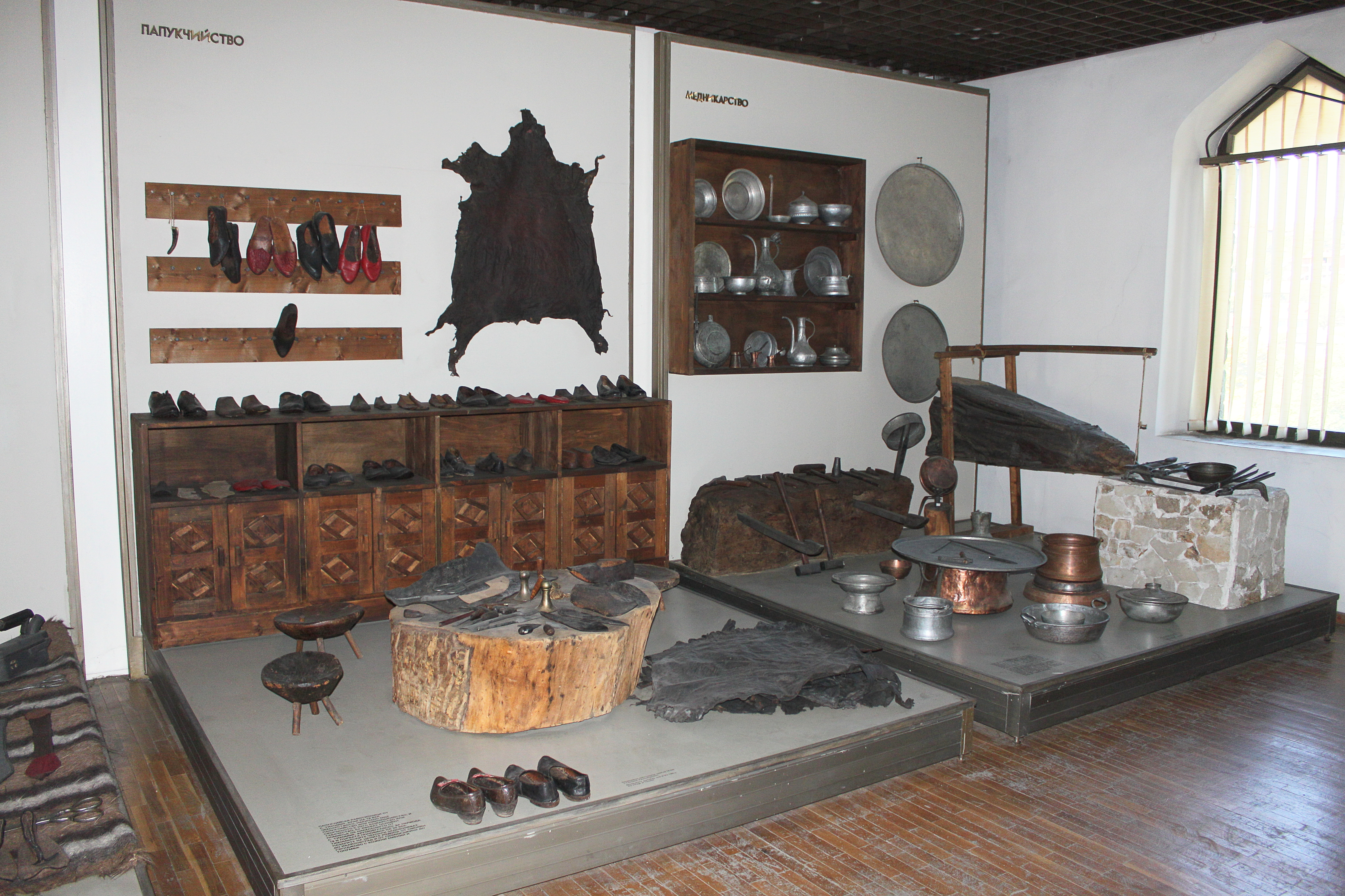 Kardzhali Museum of History, Kardzhali , Bulgaria